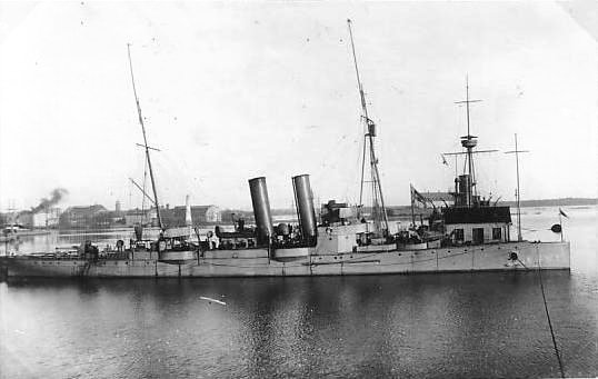 Postcard picture of the Swedish torpedocruiser HMS Claes Horn.